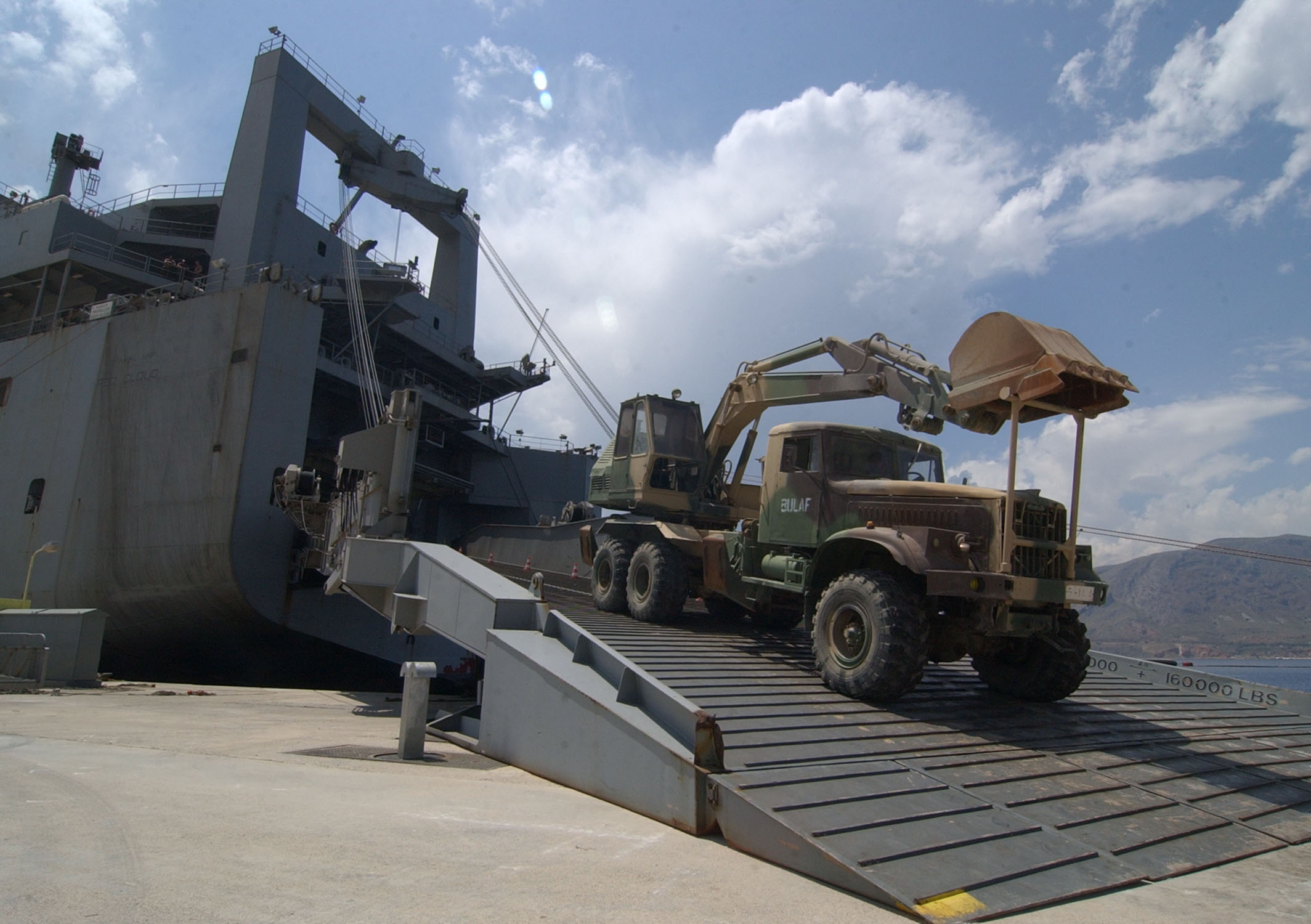 The Military Sealift Command (MSC) large, medium-speed, roll-on/roll-off ship USNS Red Cloud (T-AKR 313), off-loads coalition combat equipment and supplies at Souda Bay, Greece, after returning from deployment in Iraq. The Bulgarian wheeled and tracked vehicles are being returned to Bulgaria by the MSC after completing a tour of duty in support of Operation Iraqi Freedom (OIF). The MSC routinely provides transportation of coalition cargo to and from the Middle East, including Bulgaria and Poland. (This vehicle is EOV-4421.)